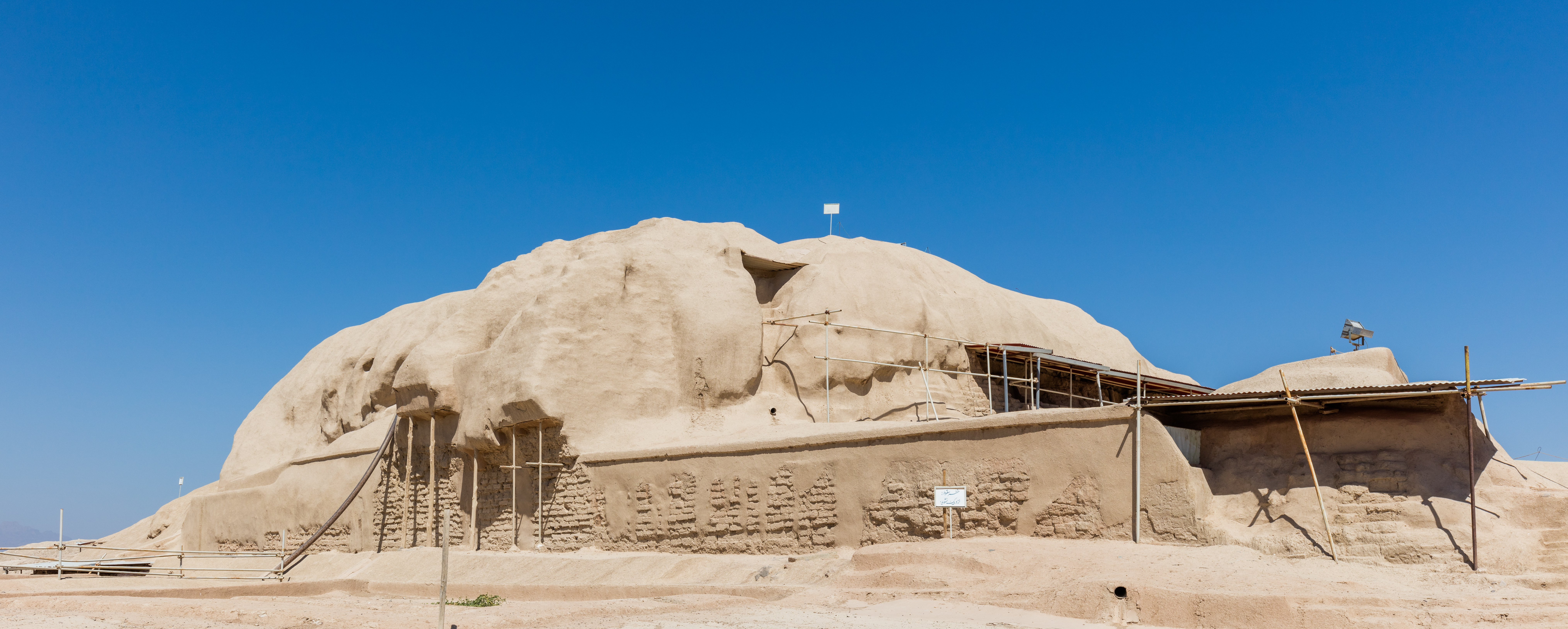 Tepe Sialk, Kashan, Iran